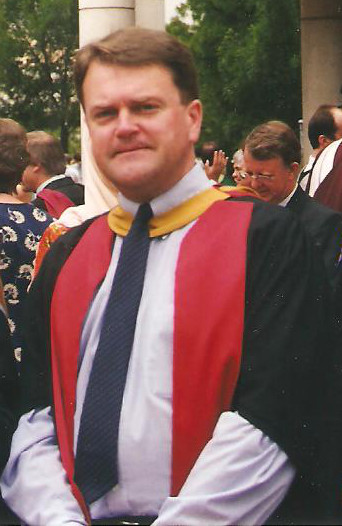 Professor Jeffrey Grey